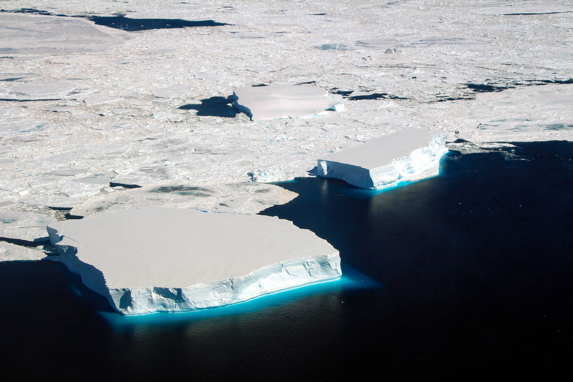 Small tabular icebergs, in the marginal ice zone, northern Weddell Sea, as seen during an Operation IceBridge flight on Nov. 22, 2017. (NASA/John Sonntag) The 2017 field season was record-breaking for Operation IceBridge, NASA’s aerial survey of the state of polar ice. For the first time in its nine-year history, the mission, which aims to close the gap between two NASA satellite campaigns that study changes in the height of polar ice, carried out seven field campaigns in the Arctic and Antarctic in a single year. In total, the IceBridge scientists and instruments flew over 214,000 miles, the equivalent of orbiting the Earth 8.6 times at the equator. The mission of Operation IceBridge, NASA’s longest-running airborne mission to monitor polar ice, is to collect data on changing polar land and sea ice and maintain continuity of measurements between ICESat missions. The original ICESat mission launched in 2003 and ended in 2009, and its successor, ICESat-2, is scheduled for launch in the fall of 2018. Operation IceBridge began in 2009 and is currently funded until 2020. The planned overlap with ICESat-2 will help scientists connect with the satellite’s measurements. Read more: For more about Operation IceBridge and to follow future campaigns, visit: NASA image use policy NASA Goddard Space Flight Center enables NASA’s mission through four scientific endeavors: Earth Science, Heliophysics, Solar System Exploration, and Astrophysics. Goddard plays a leading role in NASA’s accomplishments by contributing compelling scientific knowledge to advance the Agency’s mission. Follow us on Twitter Like us on Facebook Find us on Instagram